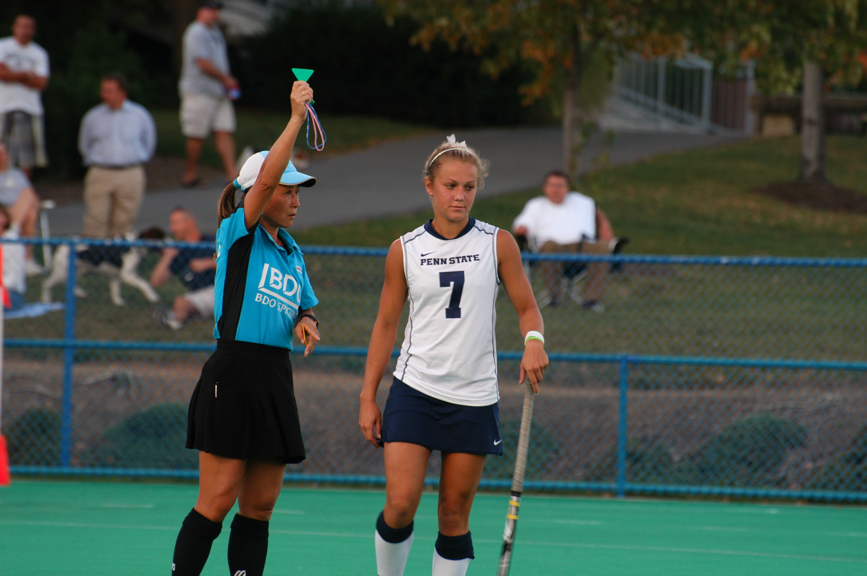 The Indiana Hoosiers vs. the Penn State Nittany Lions during a Big Ten field hockey game in University Park, Pennsylvania.